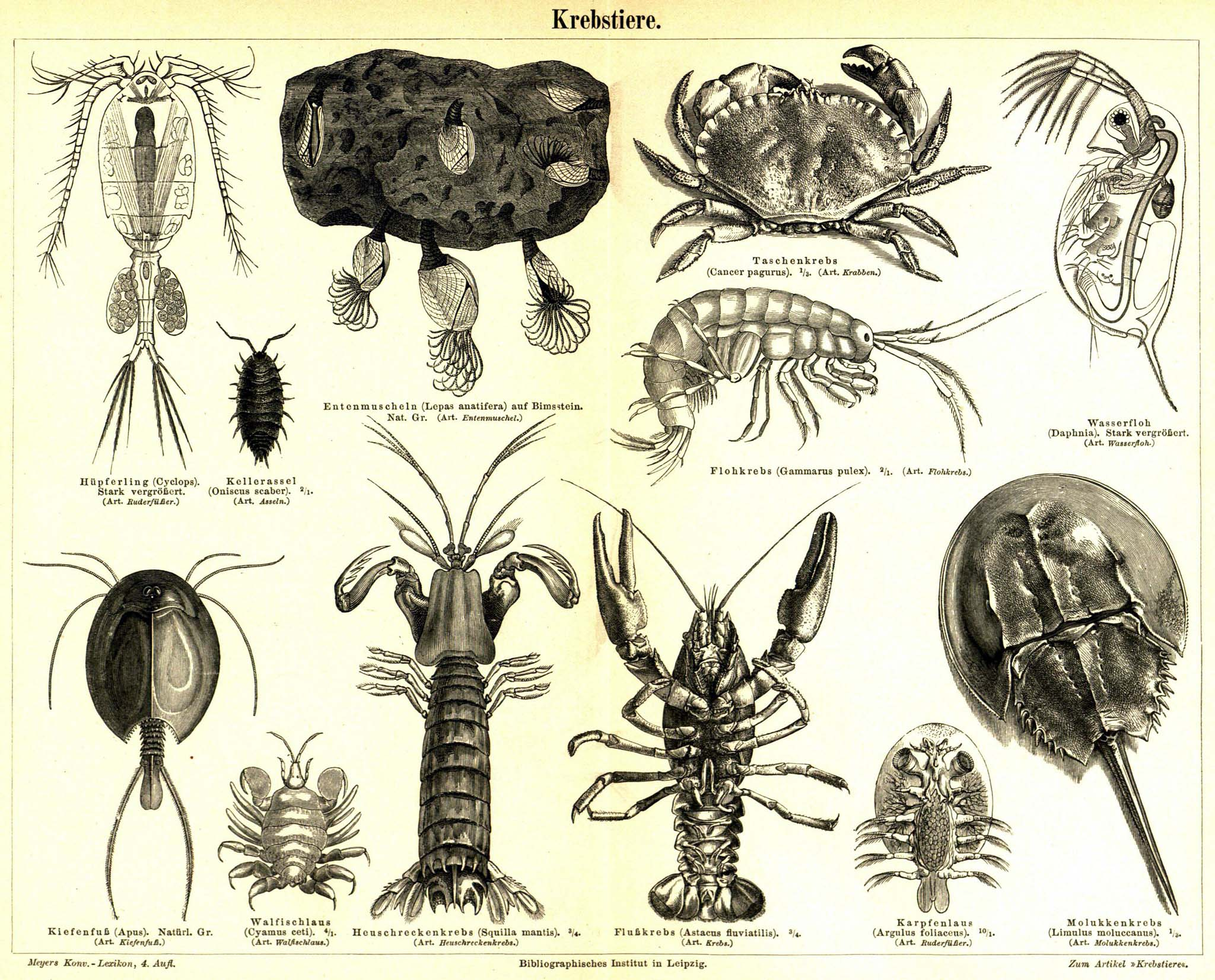 "Crustaceans"